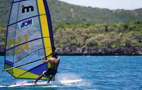 tony_surf1